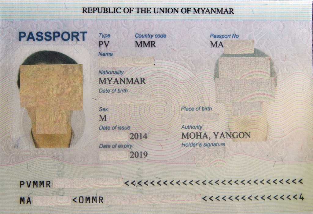 Myanmar passport Biodata page